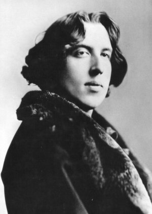 Portrait of Oscar Wilde (1854-1900) in New York, 1882. Picture taken by Napoleon Sarony (1821-1896) n. 23 (reversed).